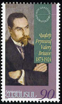 Stamp of Armenia